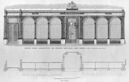 One of the first large-pane glass shop fronts (Benson shop on Bond Street in London, 1865)